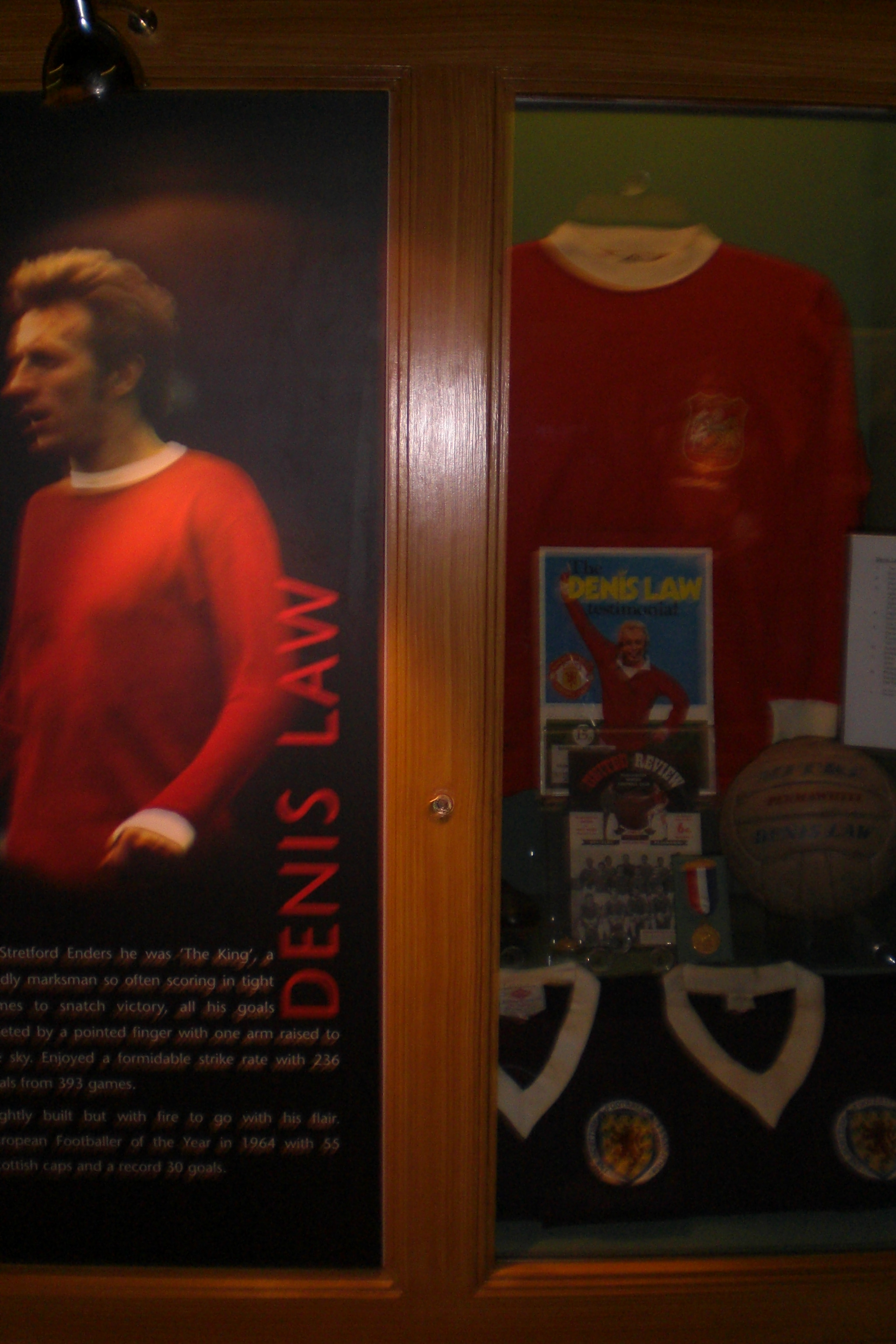 Denis Law monter at United museum